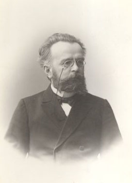 Portrait of the Russian jurist and historian Aleksandr Filippov, Rector of the University of Tartu in 1901–1903. Cropped